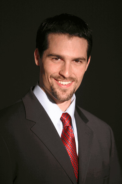 Headshot of Robert Pagliarini, the president of Pacifica Wealth Advisors, a certified financial planner, an enrolled agent with the IRS and the best-selling author of "The Six-Day Financial Makeover: Transform Your Financial Life in Less Than a Week."